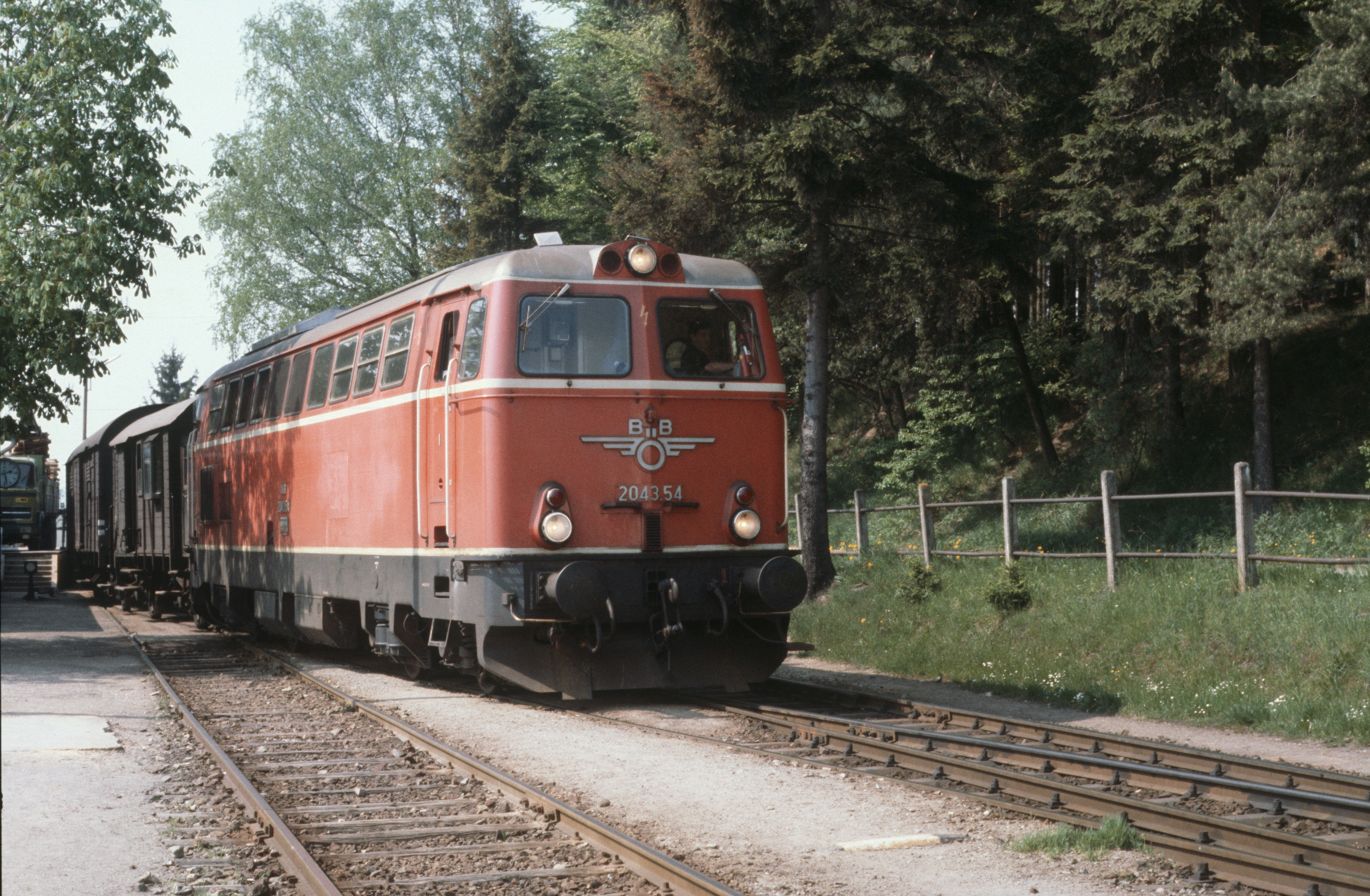 ÖBB 2043.54 shunting a goods train on a station in the Waldviertel region in Lower Austria.